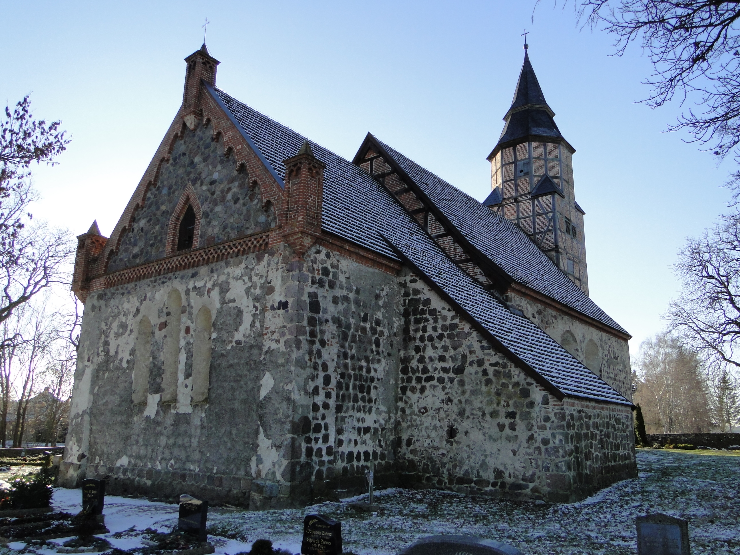 Church in Klockow, district Mecklenburg-Strelitz, Mecklenburg-Vorpommern, Germany